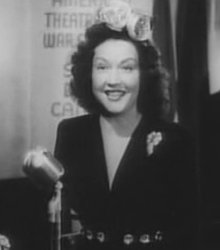 Cropped screenshot of Ethel Merman from the film Stage Door Canteen.